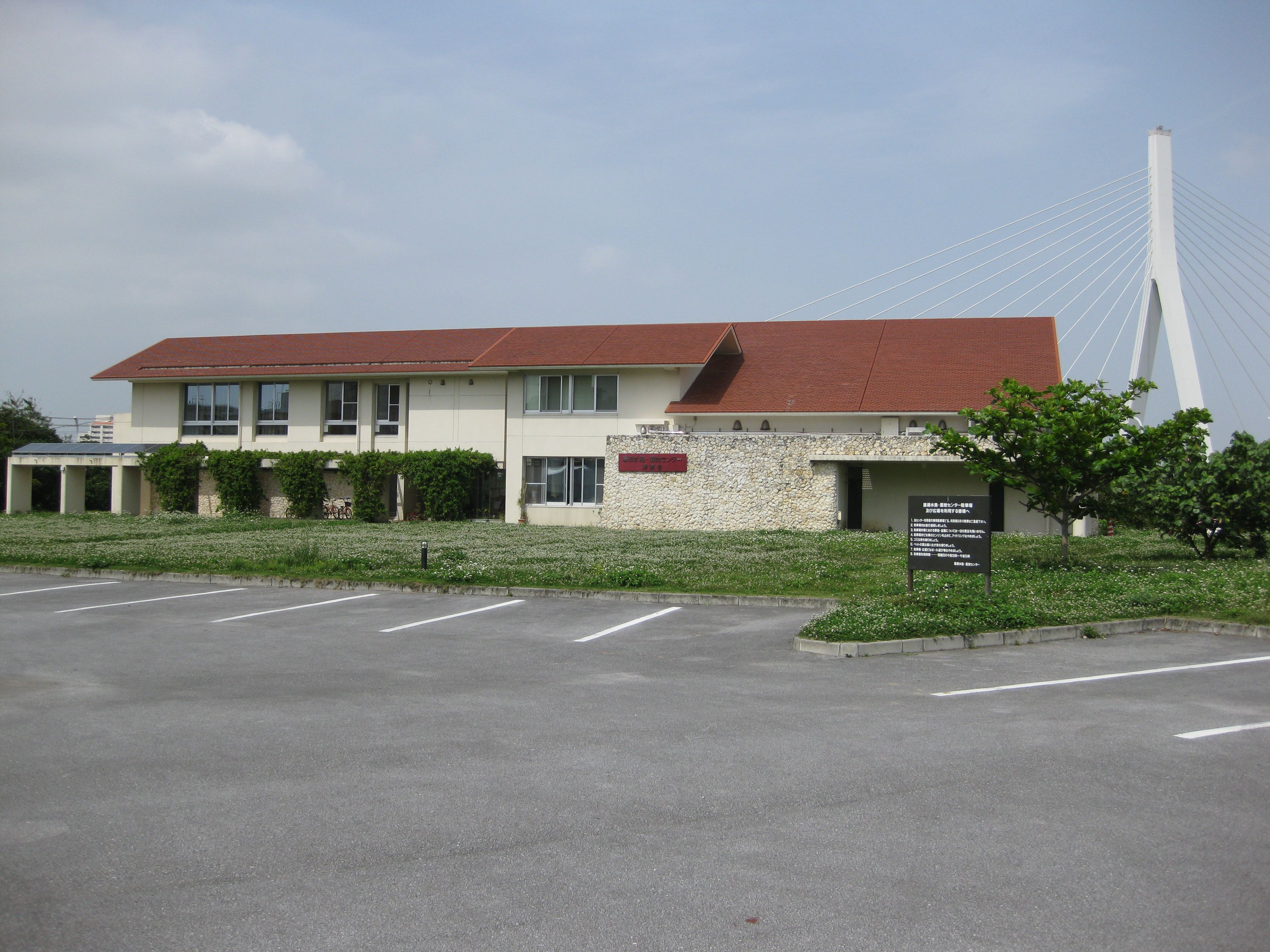 Manko Waterbird and Wetland Center in Okinawa, Japan